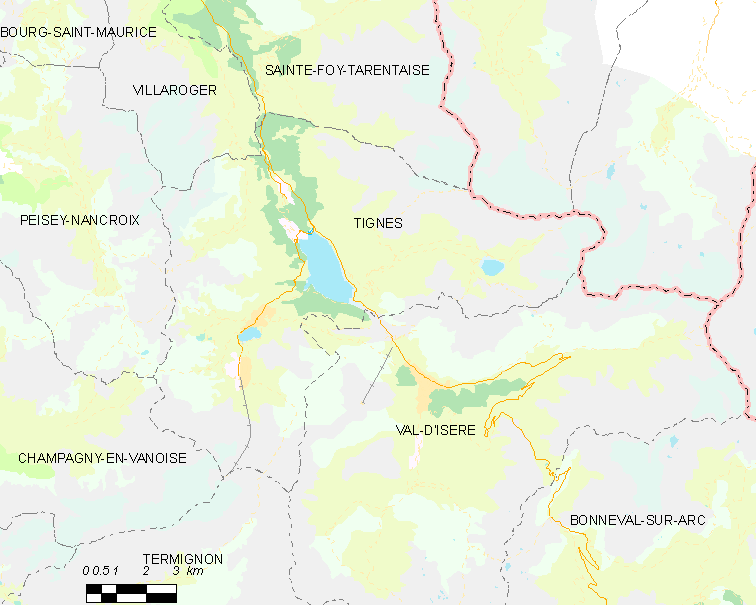 Map of French municipality Tignes